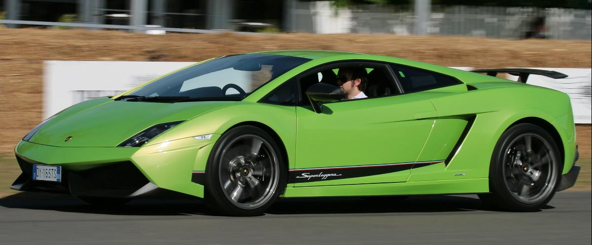 Lamborghini Gallardo LP570-4 Superleggera